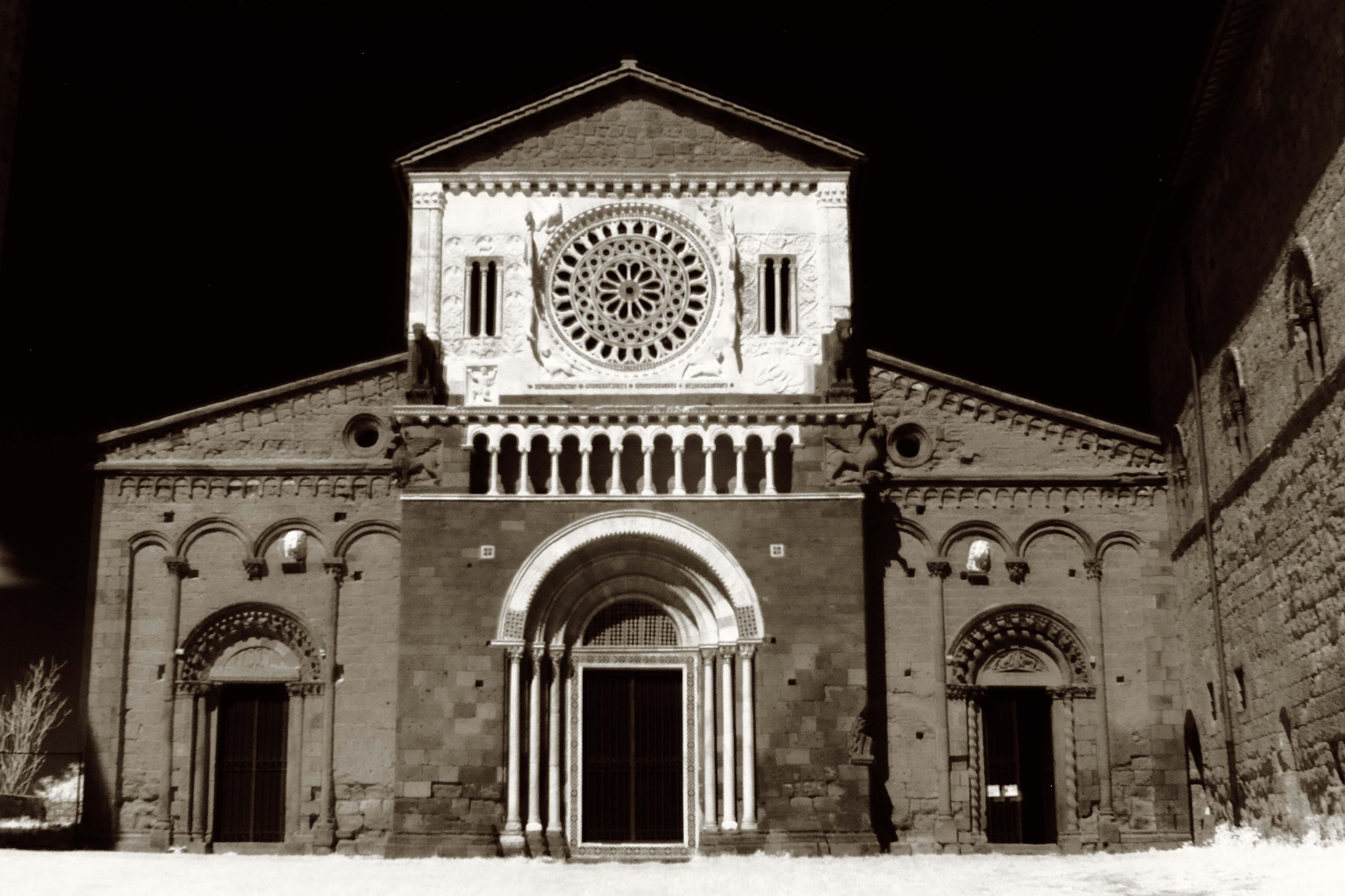 Basilica di San Pietro, dating from the 700s, with newer facade from the 1200s, and ancient crypt decorations dating from the the 300s